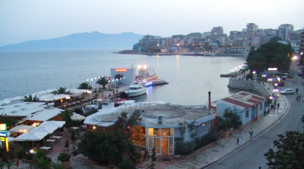 Saranda bay; Corfu in the distance